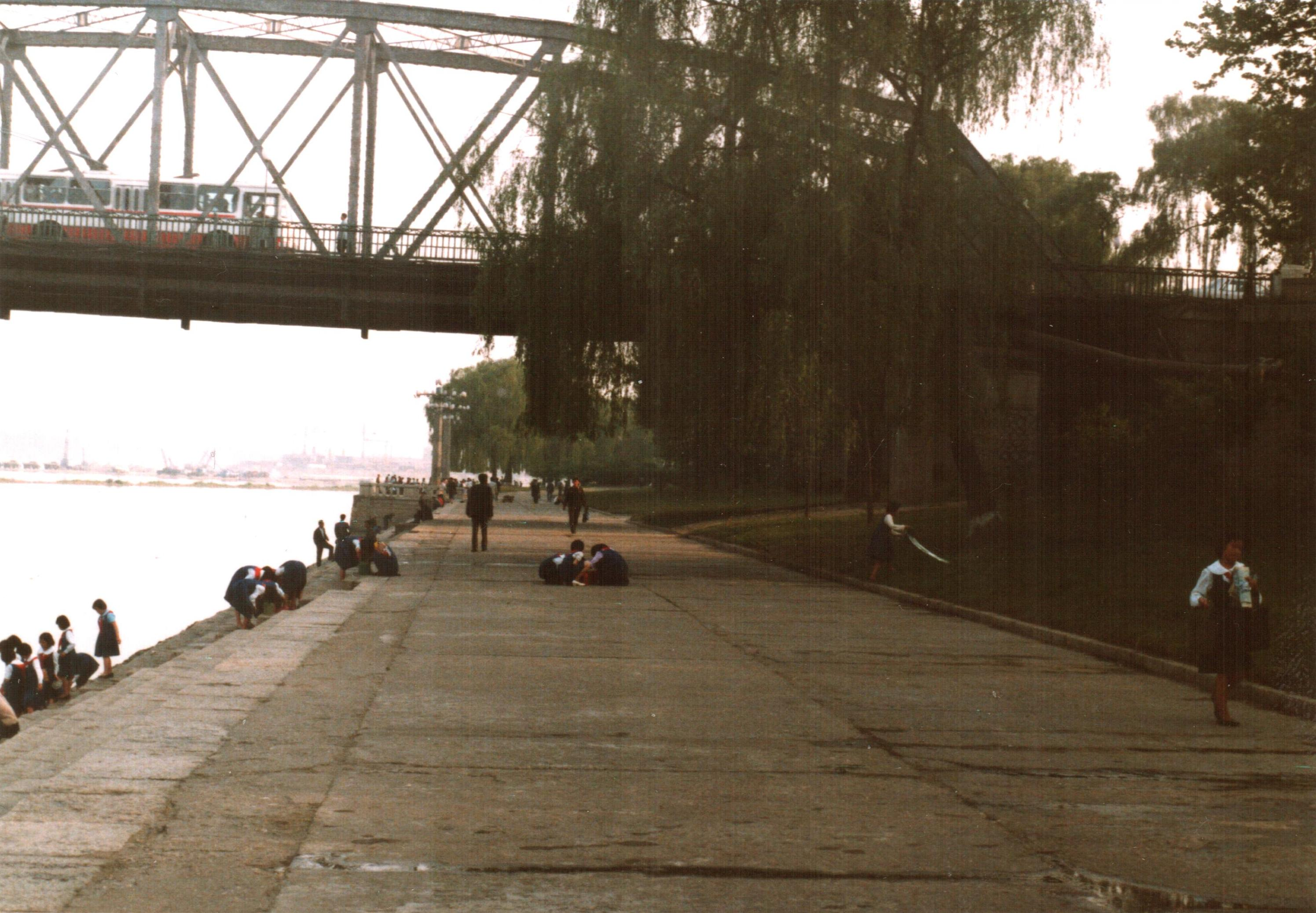 Live in May, 1988. Taedong river, Pyongyang, North Korea. I had to travel to China, then to North Korea. One day – just relaxing in Budapest – next day on a jet over the gulf. We saw the canon firing beneath (Iran-Iraq war, 1980-1988). North Korea, China was a mystery, an other planet at the time. Flying homebond I read the chinese newspaper: János Kádár is gone. Published under Creative Commons in Metapolisz DVD line. Paper, Zenit-E. Tags: North Korea 1988 People’s Republic of Korea Iran-Iraq War János Kádár Zenit E Metapolisz